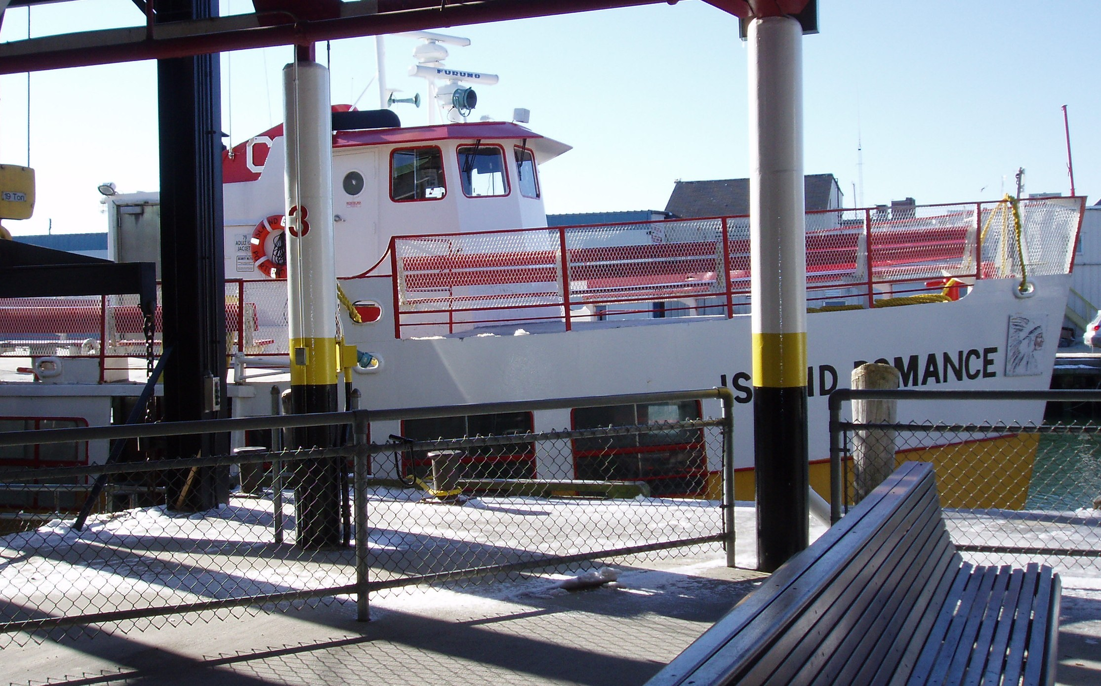 Subject: Casco Bay Lines Island Romance Ferry Source: I, Alphachimp, took this picture myself and own all rights to it. Date: Created winter 2006. Location: Image was taken in Portland Author: The image creator, Alphachimp Permission: I, Alphachimp, license this image according to creative commons share alike 2.5.